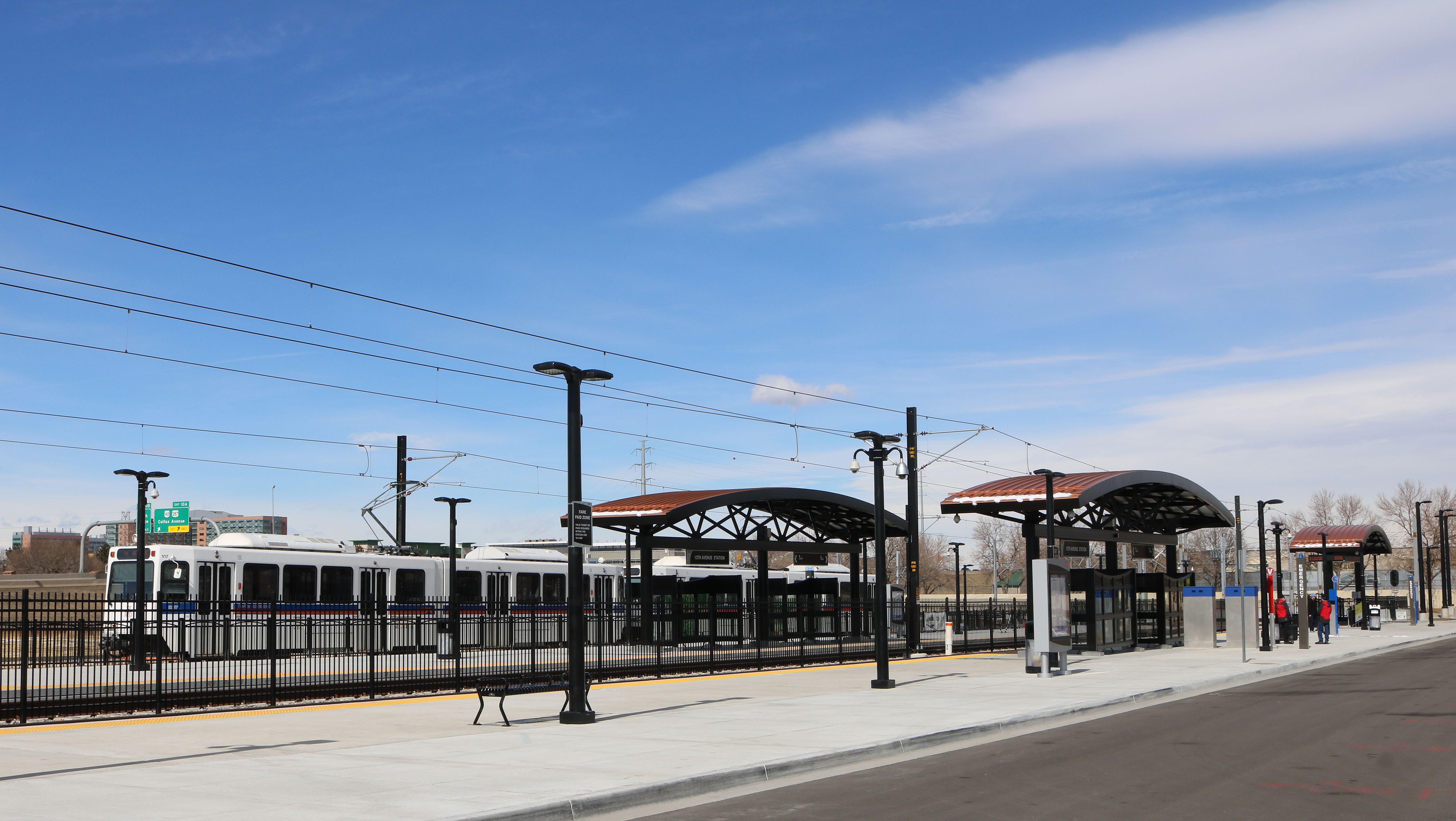 The RTD 13th Avenue Station, located at 14110 E. 13th Avenue in Aurora, Colorado.